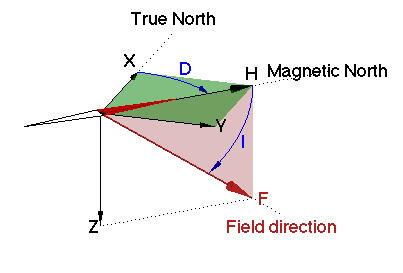 Illustration of the coordinate systems used for representing the Earth's magnetic field. The coordinates X,Y,Z correspond to North, East and down; D is the declination and I is the inclination. The declination is measured first using a compass and then the inclination is measured while facing magnetic north.